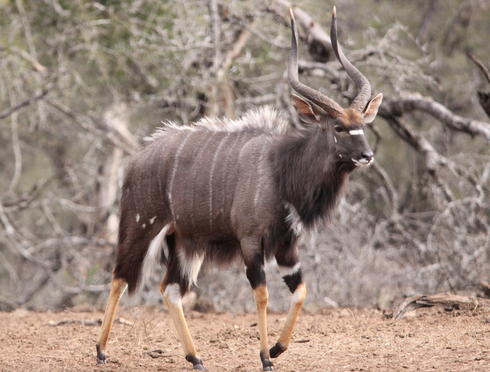 Nyala, Tragelaphus angasi - bull approaching the water hole